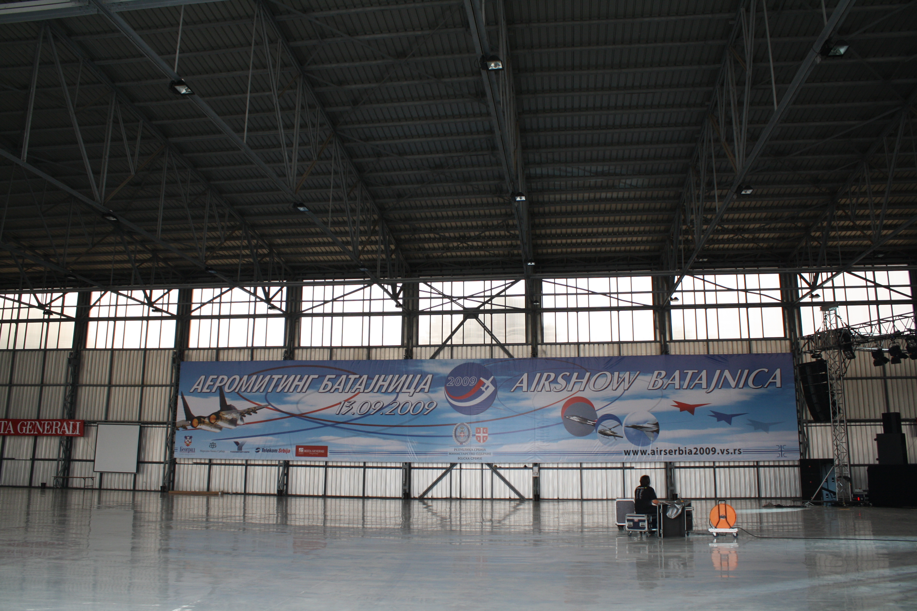 Repaired hangar at Batajnica airbase, Batajnica 2009 airshow. Поправљени хангар на аеродрому Батајница, аеромитинг Батајница 2009.